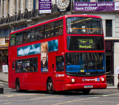 Stagecoach East London bus 17433 (reg. LX51 FKG), a 2001 Dennis Trident 2 double-decker with Alexander ALX400 bodywork, pictured in Ludgate Circus, City of London, operating London Buses route 15. It is entering the circus from Fleet Street, heading east en route to Blackwall.